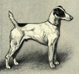 Smooth Fox Terrier